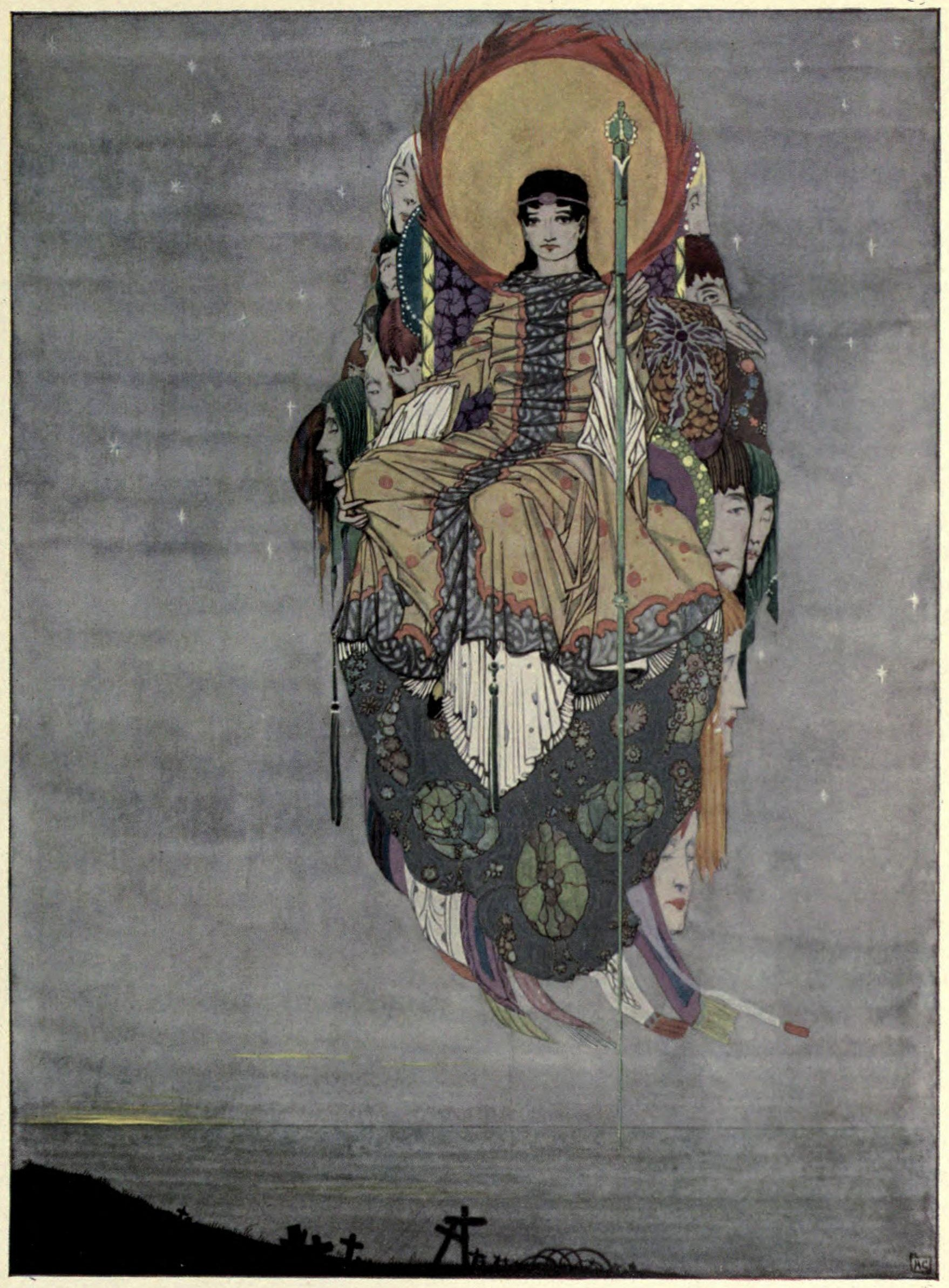 Illustration for The year's at the spring; an anthology of recent poetry ([1920]) New York, Brentano's